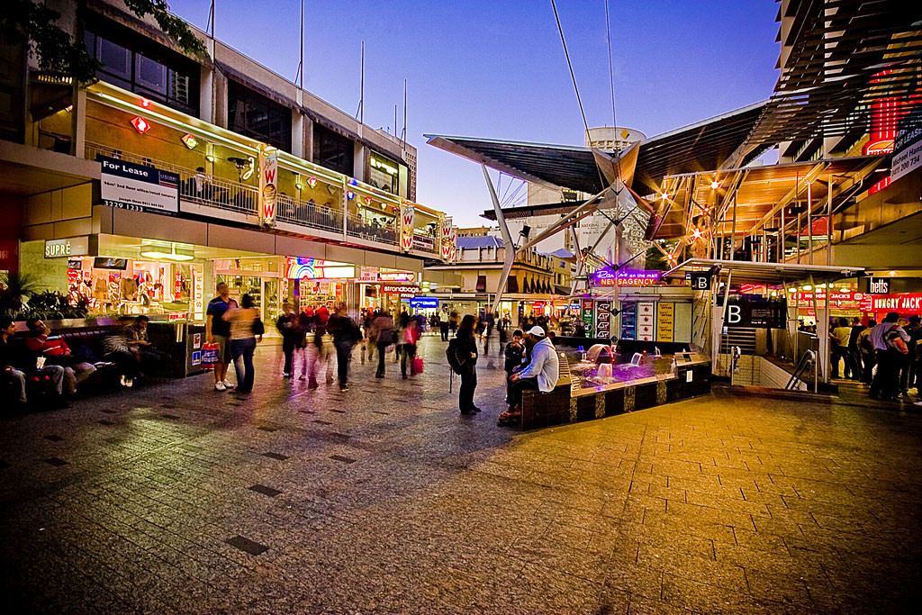 George Street end of the Queen Street Mall in Brisbane, Australia.